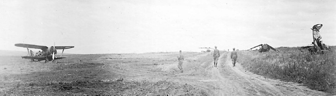 Red Army Polikarpov I-153 airplanes of IAP-55 destroyed on 22 June 1941 at Balti airfield